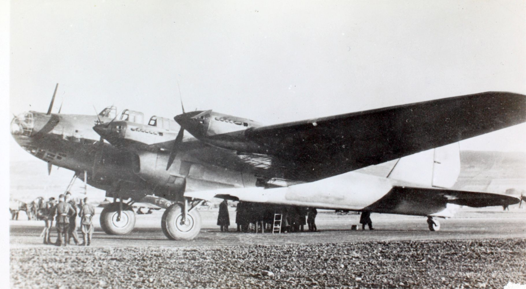 Catalog #: 15_002207 Title: Tupolev TB-7 (Ant-42, Pe-8) Date: 1942 ADDITIONAL INFORMATION: Leuchars, Scottland Collection: Charles M. Daniels Collection Photo Album Name: Soviet Aircraft Page #: 3 Tags: Soviet Aircraft, Charles Daniels, tupolev PUBLIC COMMONS.SOURCE INSTITUTION: San Diego Air and Space Museum Archive